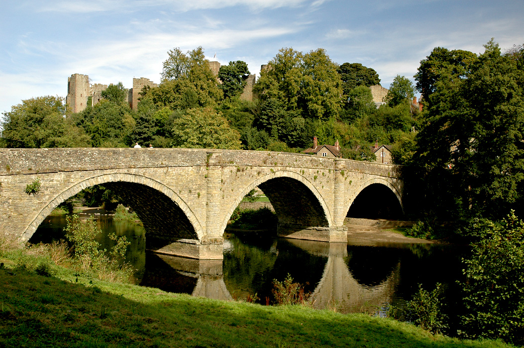 The Ludlow bridge over the river Teme. The building in the background is Ludlow Castle.)